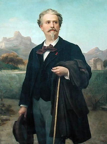 Portrait of the poet Frederic Mistral (1830—1914)